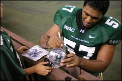 Les Soloai UH